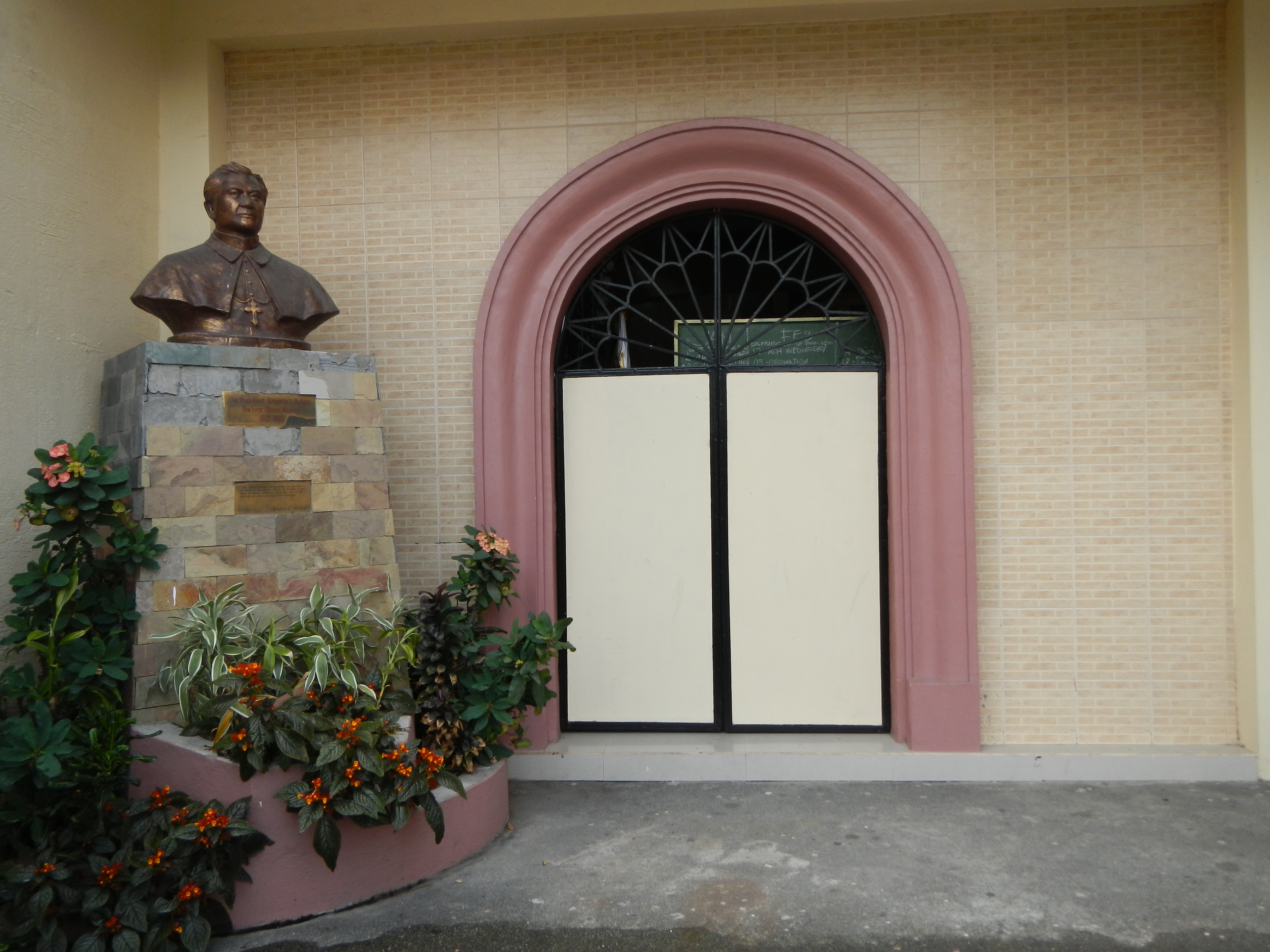 Samal, Bataan[1][2]Eastern side of Bataan, Samal is bounded by the municipalities of Orani, Abucay, Mt. Natib and Manila Bay. Its total population is 45,677 with main products: palay, corn, vegetable, fruits, rootcrops, coffee and cutflowers, livestock, poultry and aquatic resources such as shellfish, crabs, prawns, shrimps and different species of fish. Coordinates: 14°46'3"N 120°29'8"E[3][4][5]